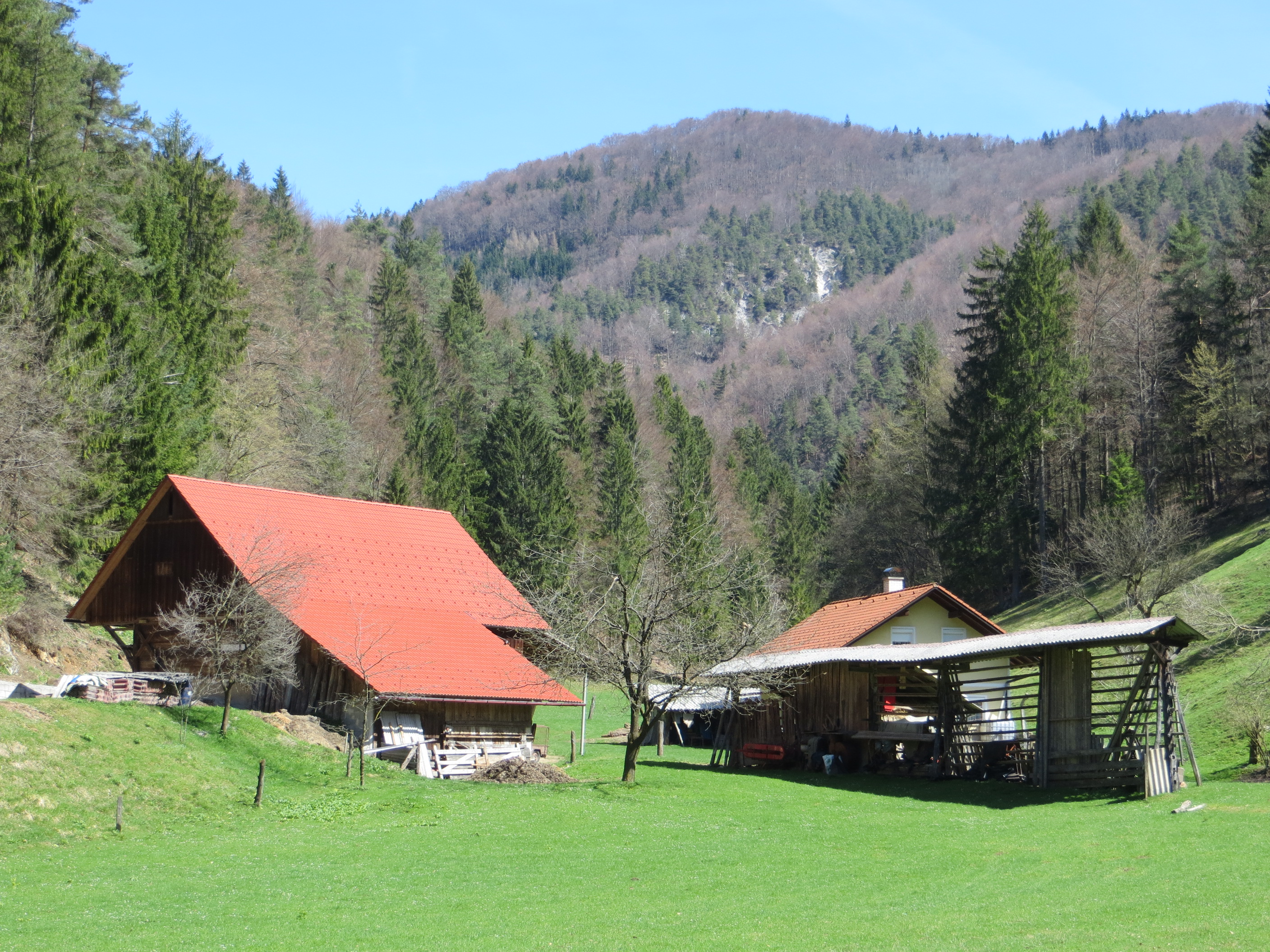 The hamlet of Dular in Borje, Municipality of Zagorje ob Savi, Slovenia